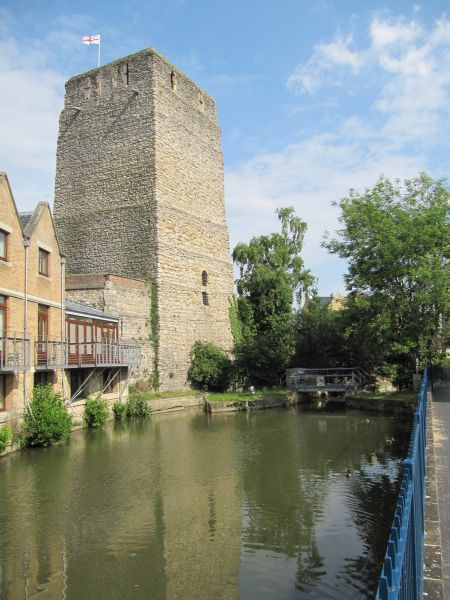 View down Castle Mill Stream to St George's Tower, Oxford Castle, England